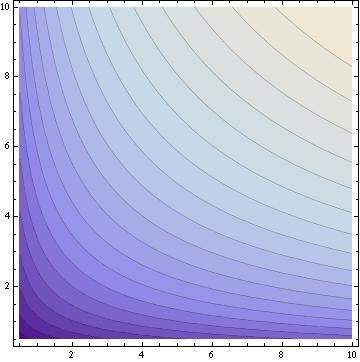 Isoquants